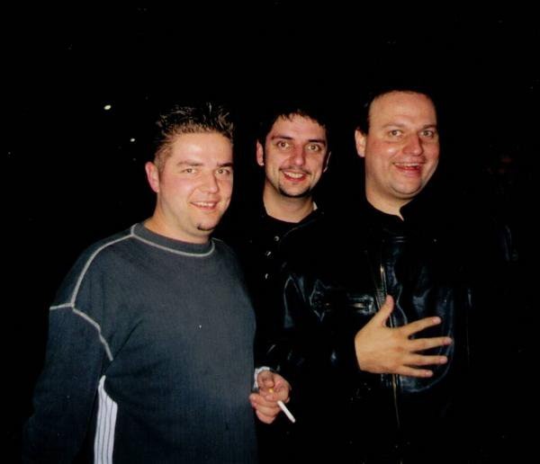 The Romans